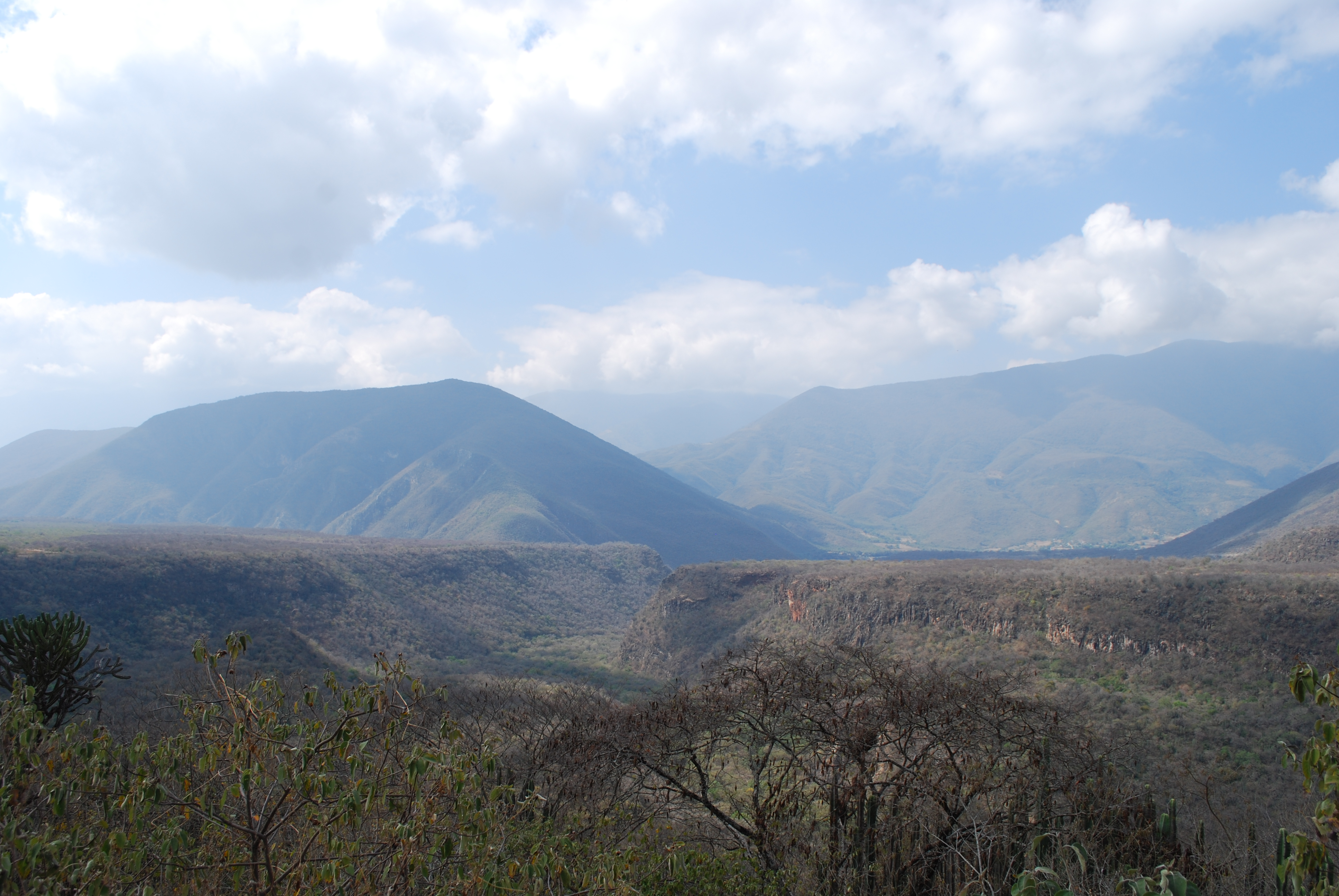 Scenery between Concá and Arroyo Seco in Municipality of Arroyo Seco, Querétaro state, Mexico.